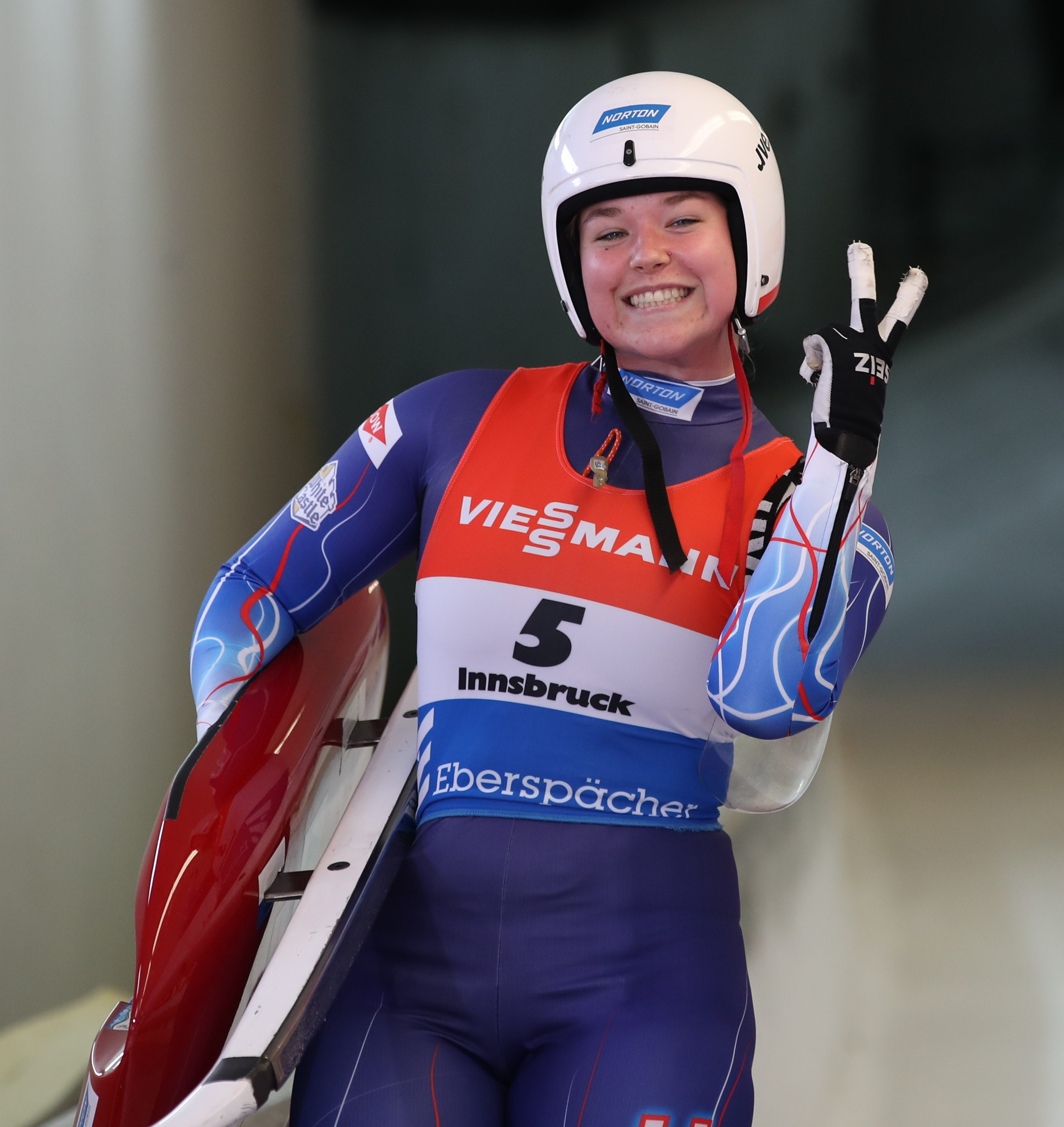 Women's World Cup race at the 2019/20 Luge World Cup in Innsbruck-Igls